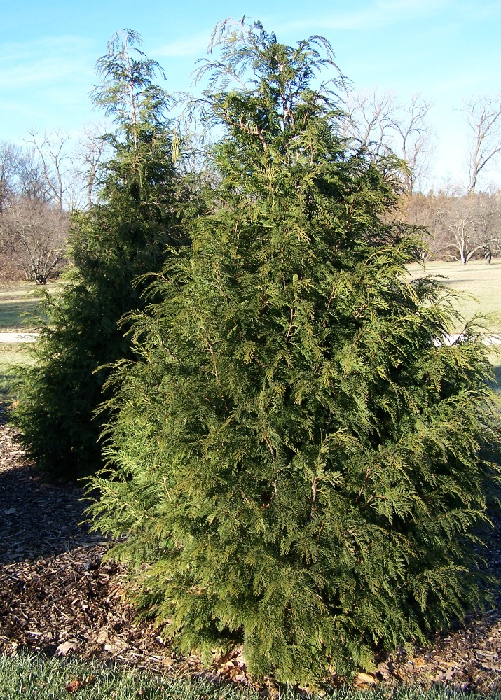 Nootka Cypress Cupressus nootkatensis 'Sullivan' (syn. Chamaecyparis nootkatensis). Cultivated specimens undergoing testing at Morton Arboretum in northern Illinois.